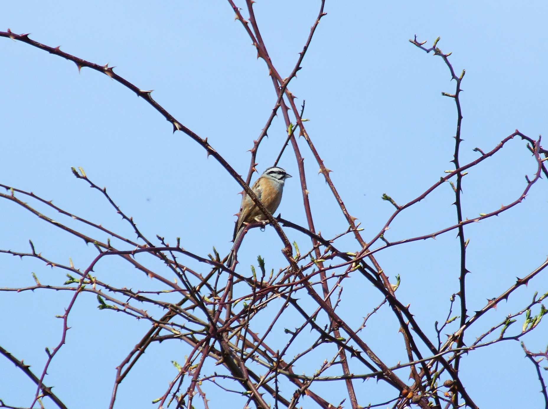 Rock Bunting, Ahrtal, Germany